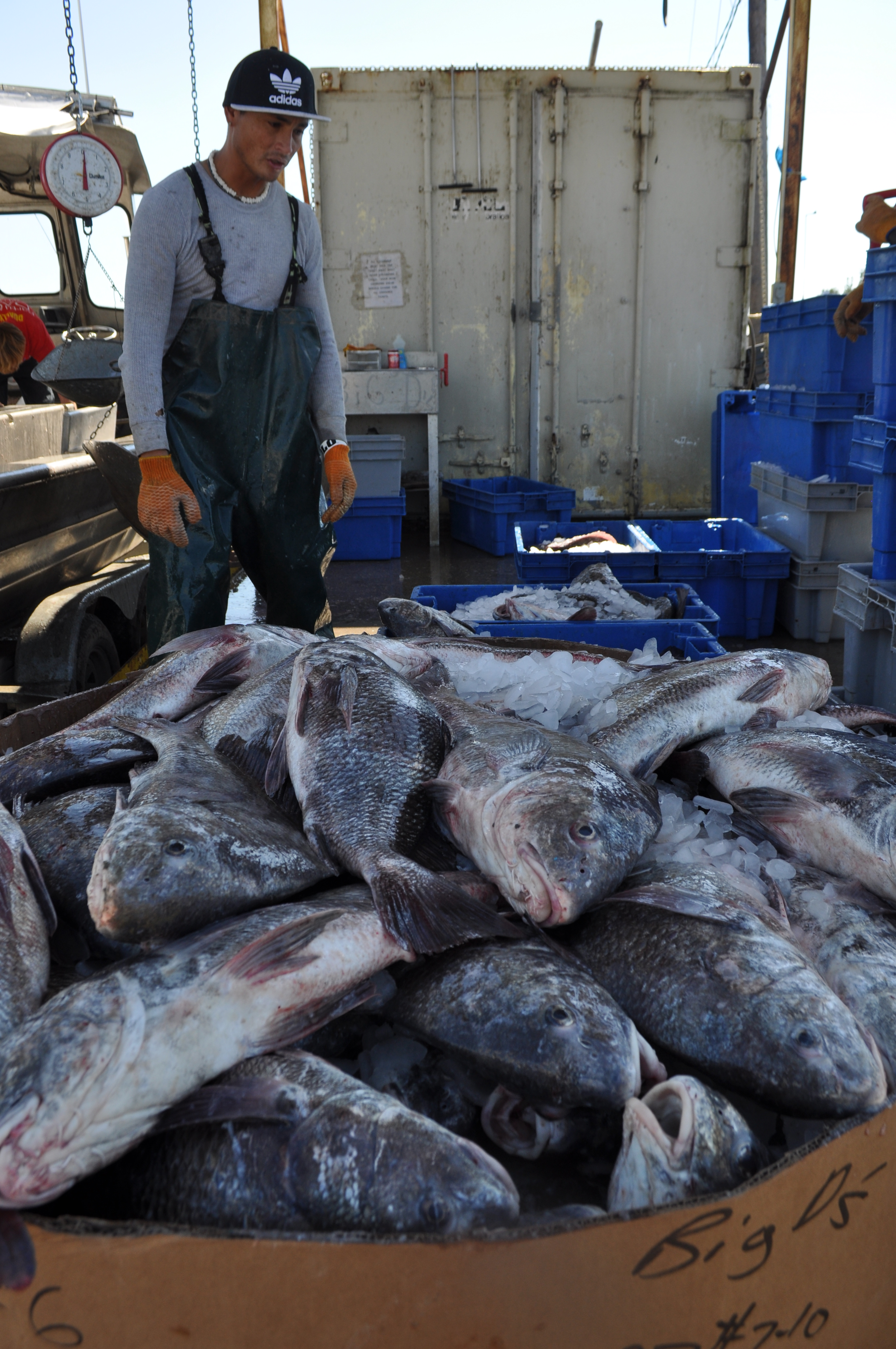 Drum fish fresh caught in Louisiana